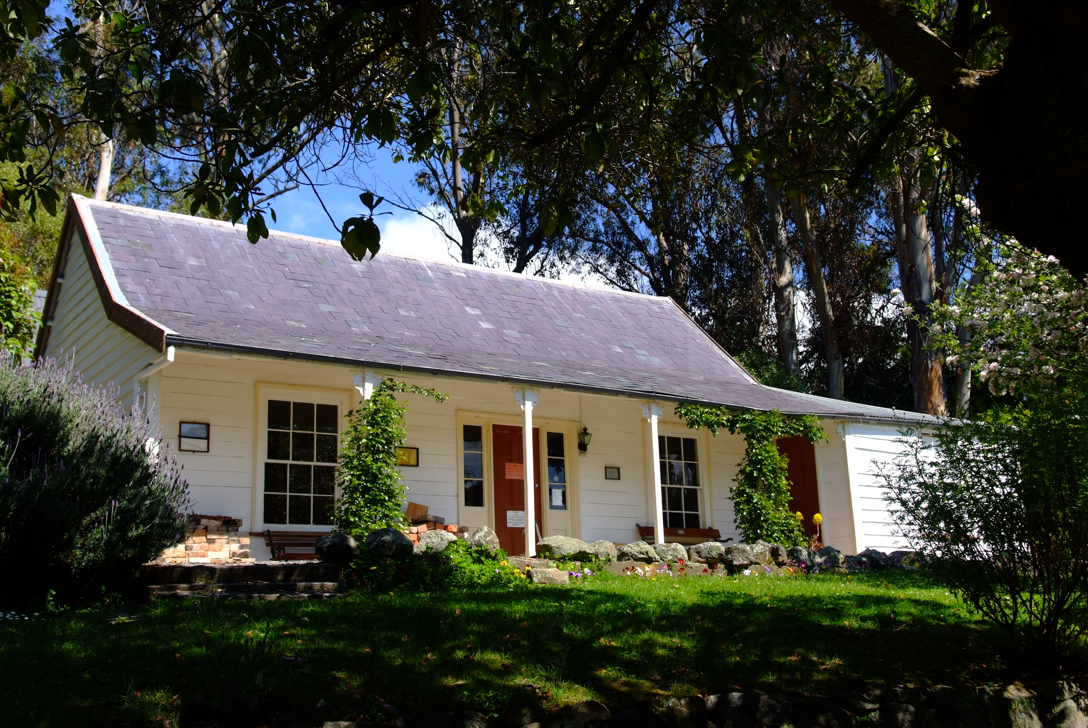 Stoddart Cottage in 2011